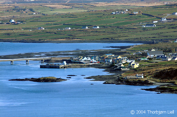 Portmagee, Co. Kerry, Ireland. Photo by Thorbjorn Liell/Eireway